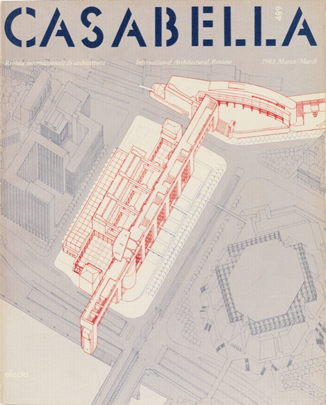 Cover of Casabella magazine #489, March 1983. Arnoldo Mondadori Editore, Mondadori Group.